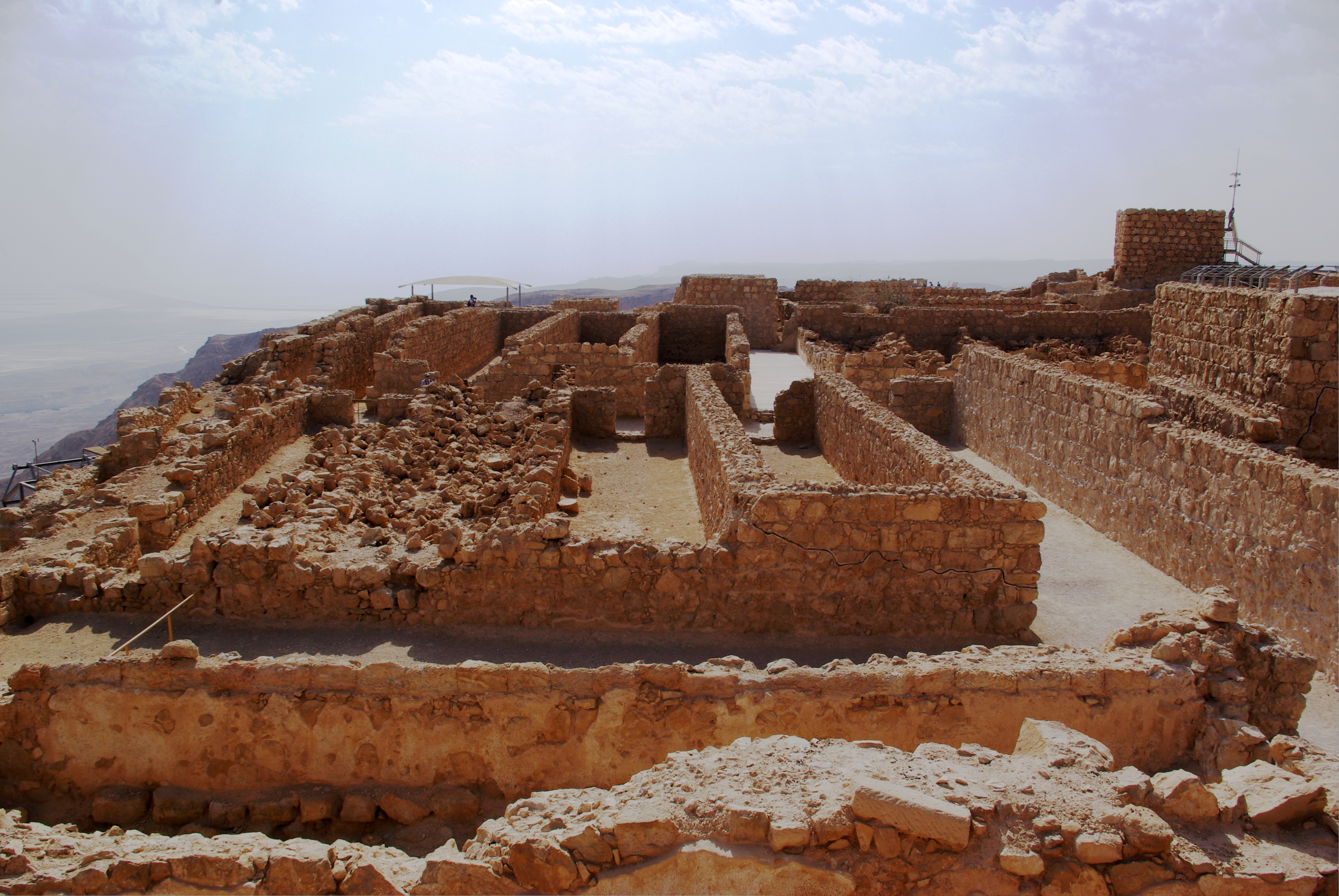 Israel, Masada